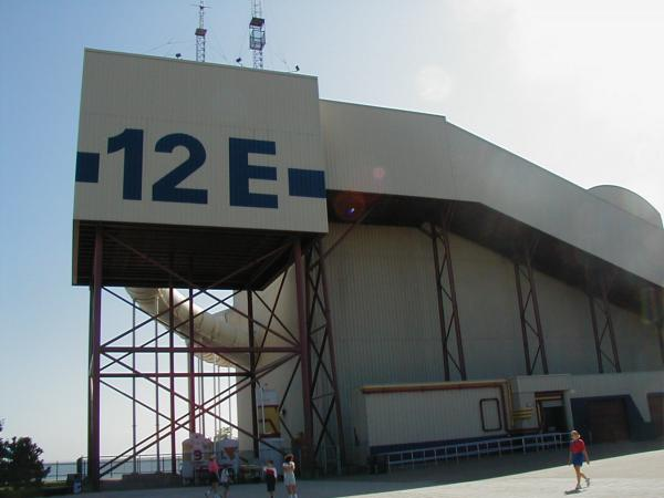 Subject: Disaster Transport roller coaster at Cedar Point in Sandusky, Ohio Author: Nick Nolte Taken: August 23, 2001